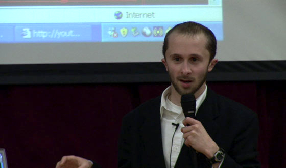 Game developer Danny Ledonne, creator of the controversial video game Super Columbine Massacre RPG! (2005).